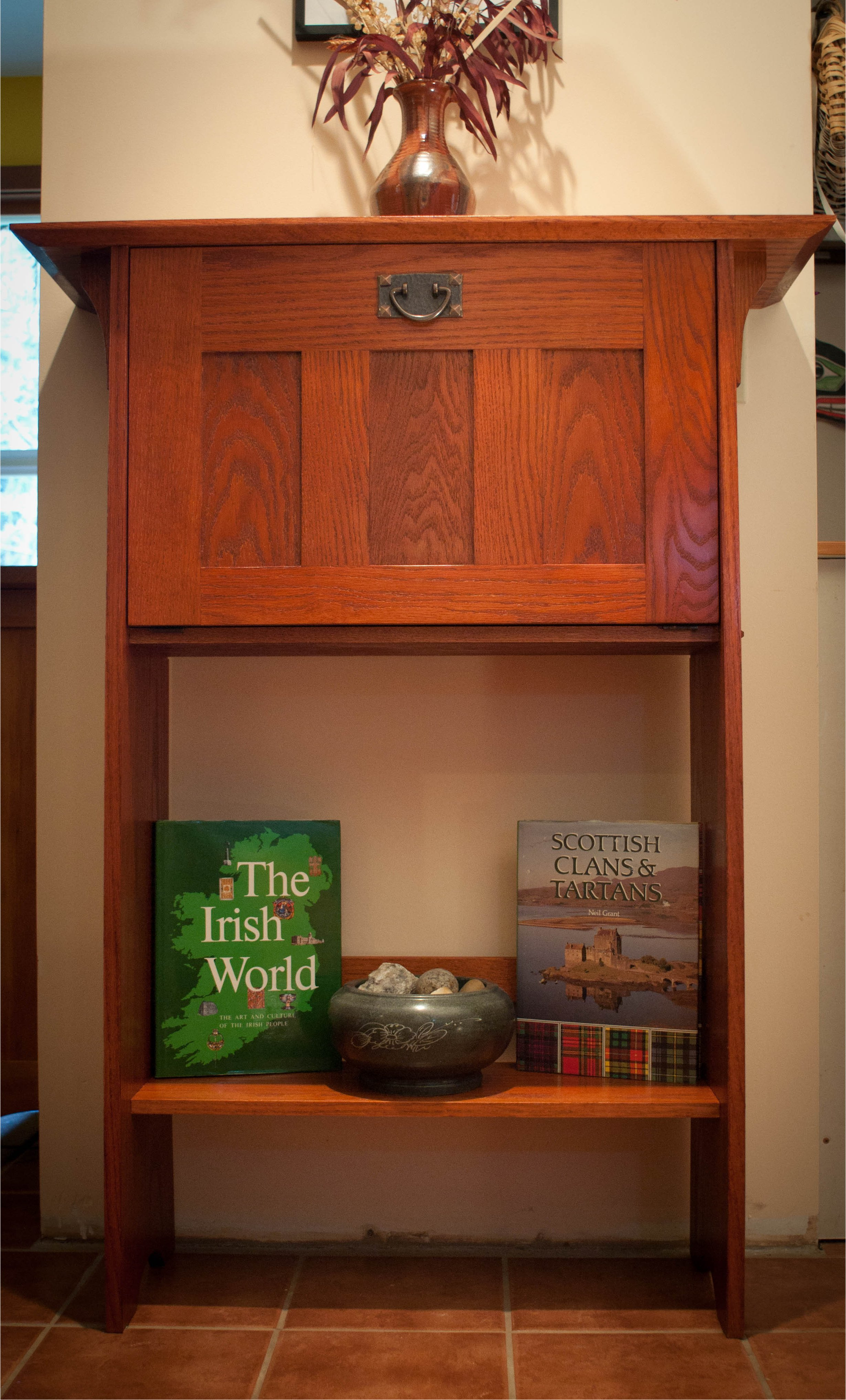 Modern cellarette built 2011